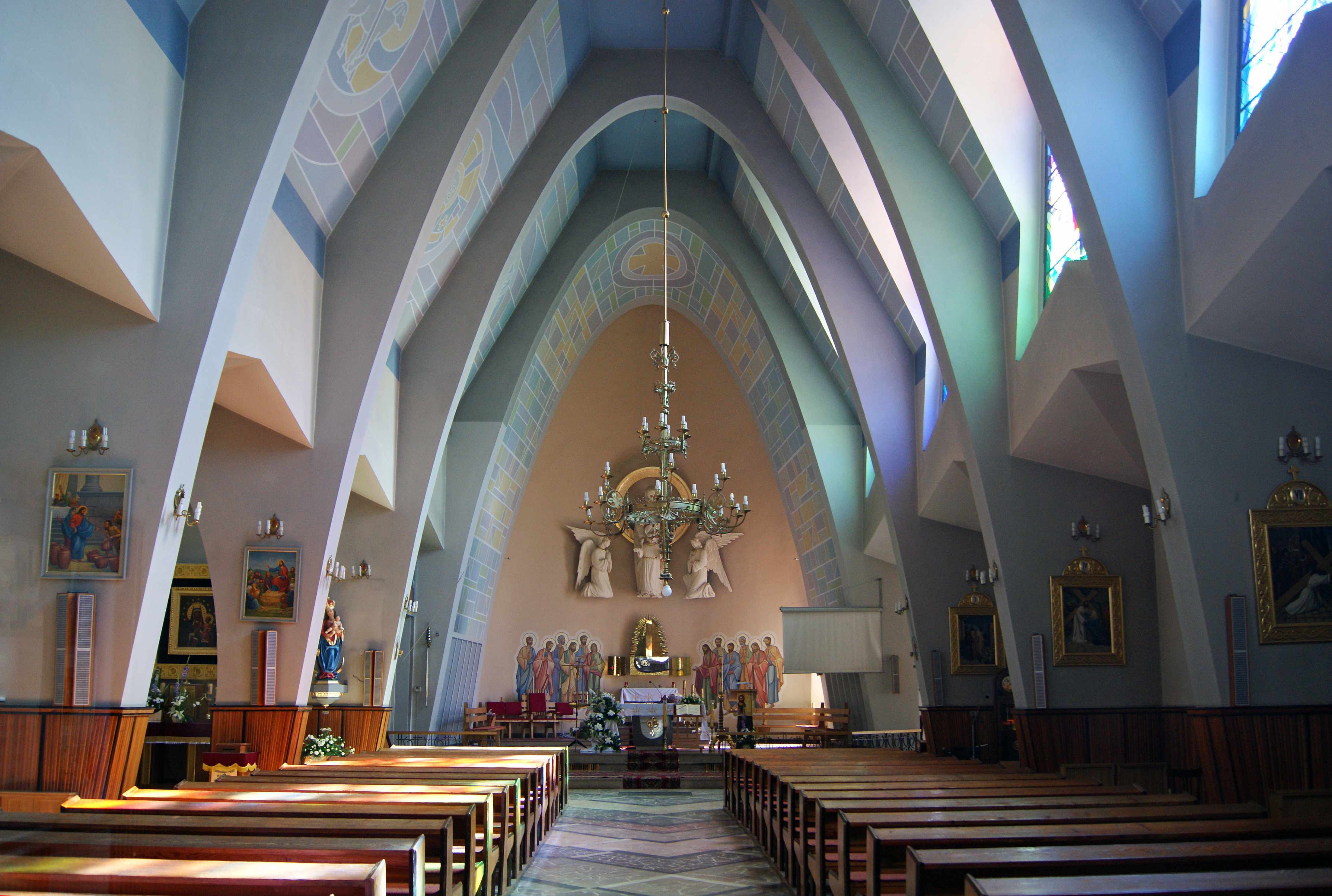 Church of St. Joseph the Worker (interior), Kłaj village, Wieliczka County, Lesser Poland Voivodeship, Poland